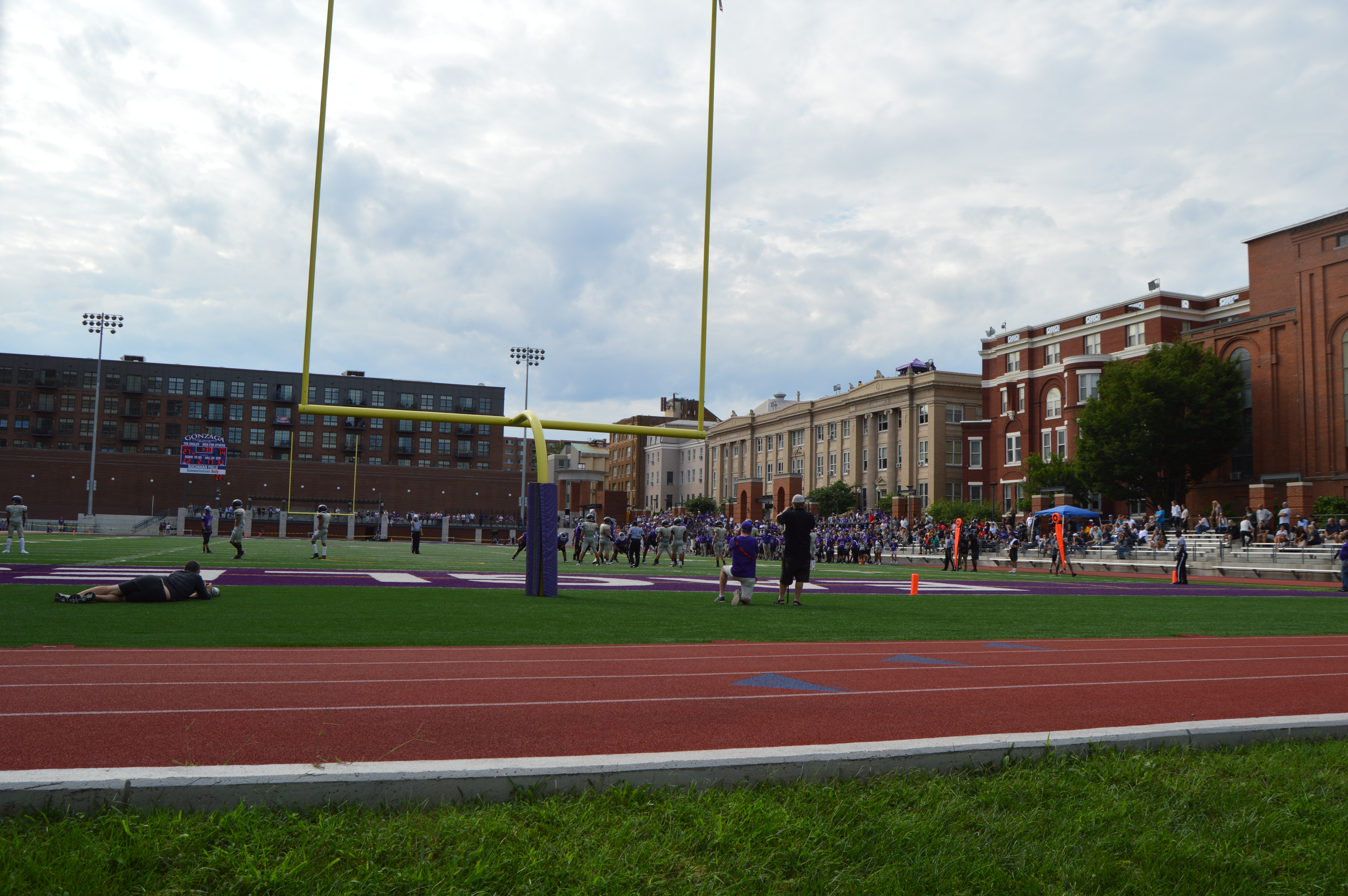 An American football game in an unusual location: H Street and North Capitol Avenue, seven blocks north of the Capitol in densely built-up Washington, D.C. Peddie School is visiting Gonzaga College High School. With 1:30 remaining in the third quarter, Gonzaga leads Peddie 27-14; it is 2nd and 2, and Gonzaga has the ball on Peddie's 17-yard-line. Gonzaga ultimately won the game 30-20.